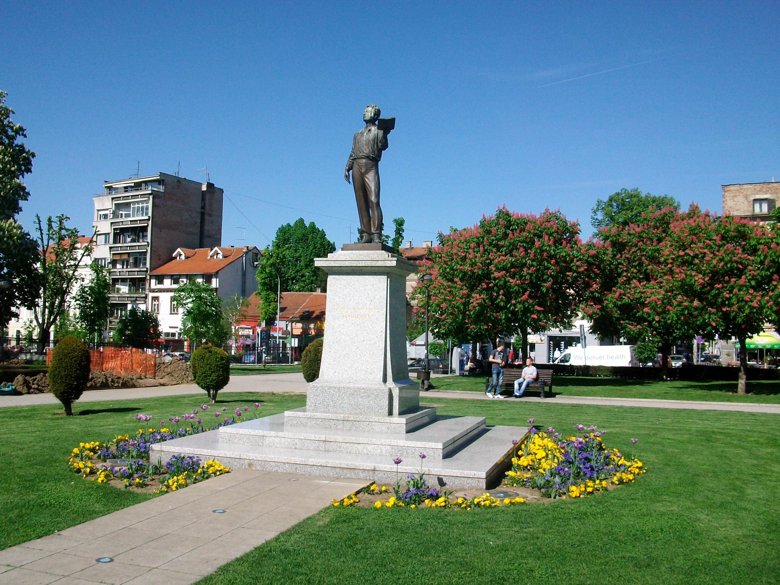 Monument to Alexander Sergeyevich Pushkin in the Belgrade neighbourhoud of Vukov Spomenik. Srpskohrvatski / српскохрватски: Spomenik Aleksandru Sergejeviču Puškinu u beogradskoj četvrti Vukov spomenik.